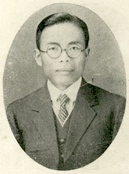 龔天降 (Kéng Thian-kàng)